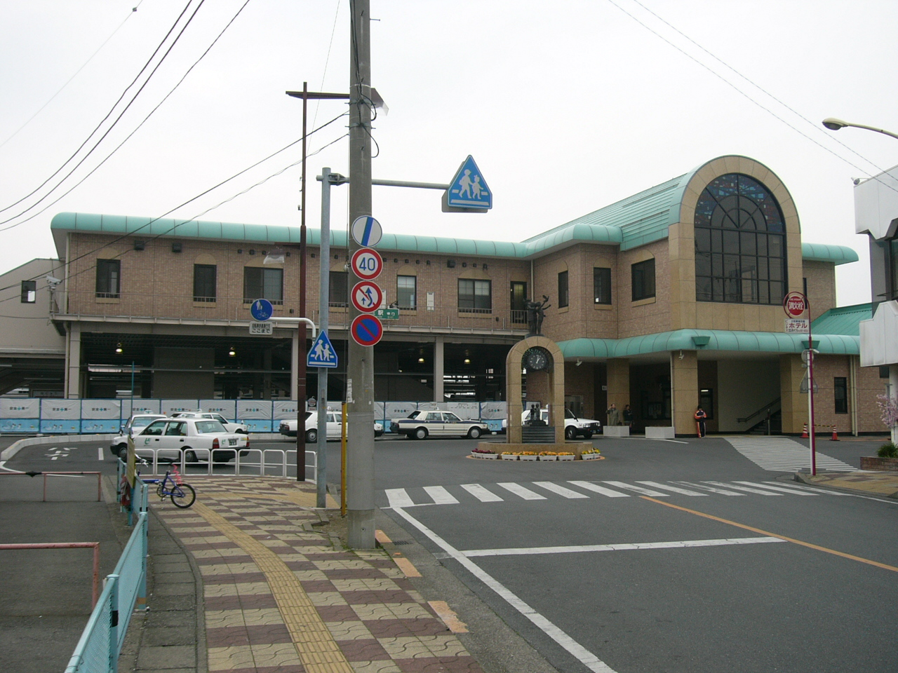 Hanyu Station (East Entrance)